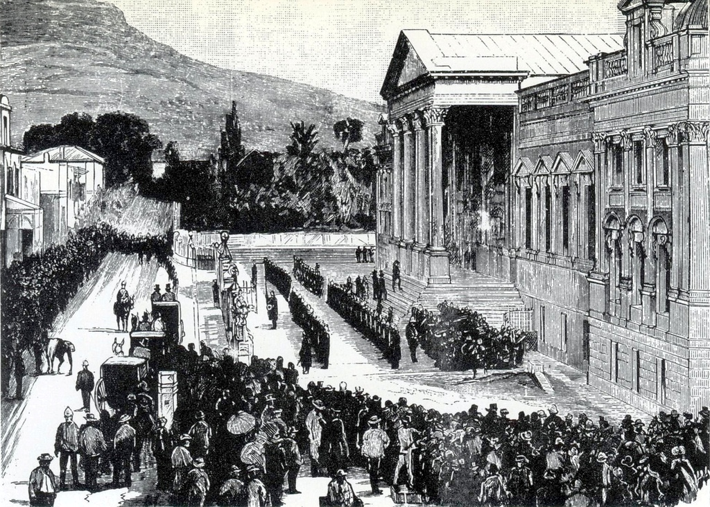 Cape Colony - 1885 Opening of houses of parliament - The Graphic 1885